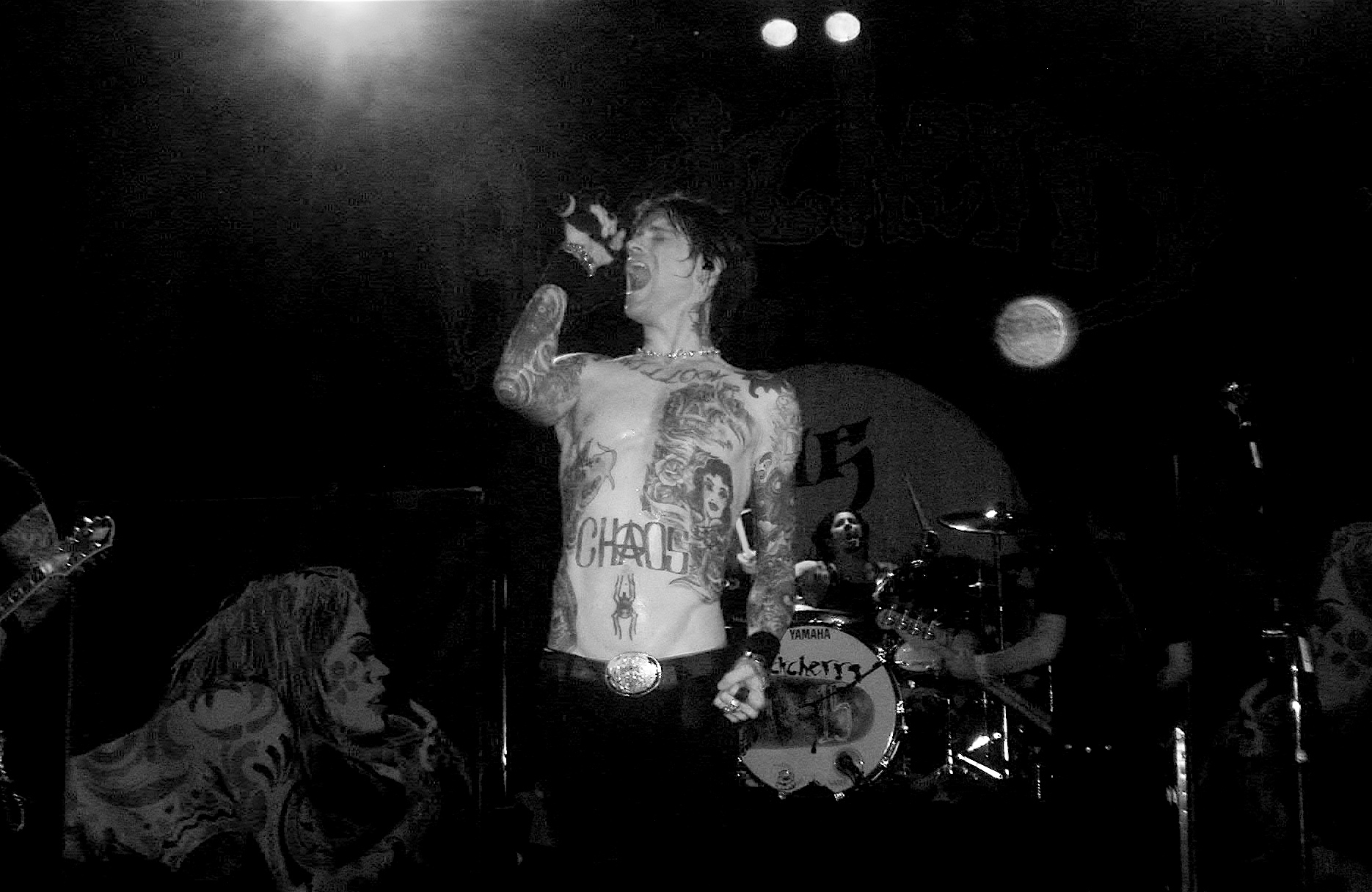 Buckcherry Sunshine Theater 6/22/07